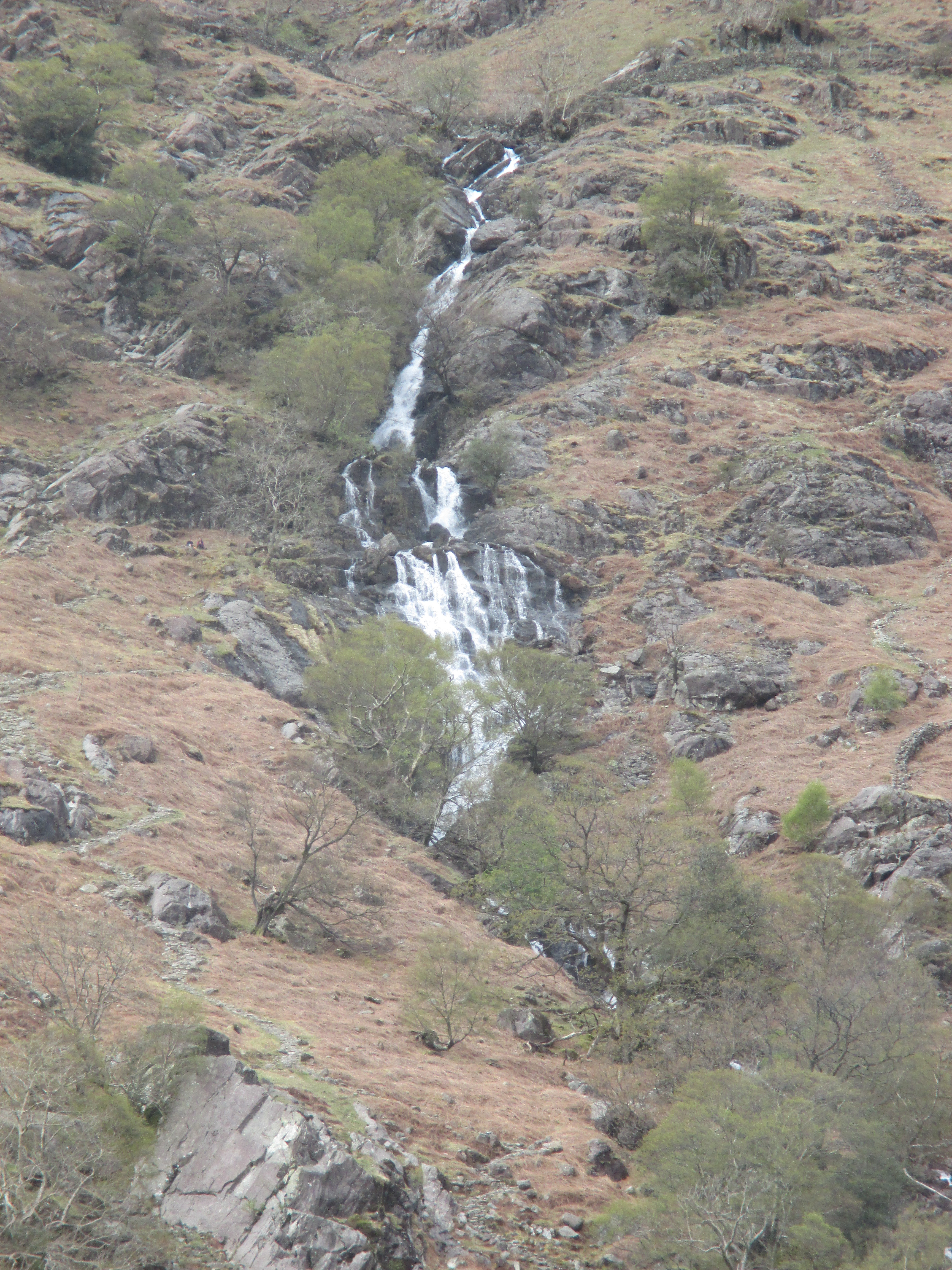 Sourmilk Gill, Seathwaite, photographed from the east. NB This image does not belong in Category:Sour Milk Gill since it is a different stream of the same name. This one flows into the Derwent, not into Buttermere.